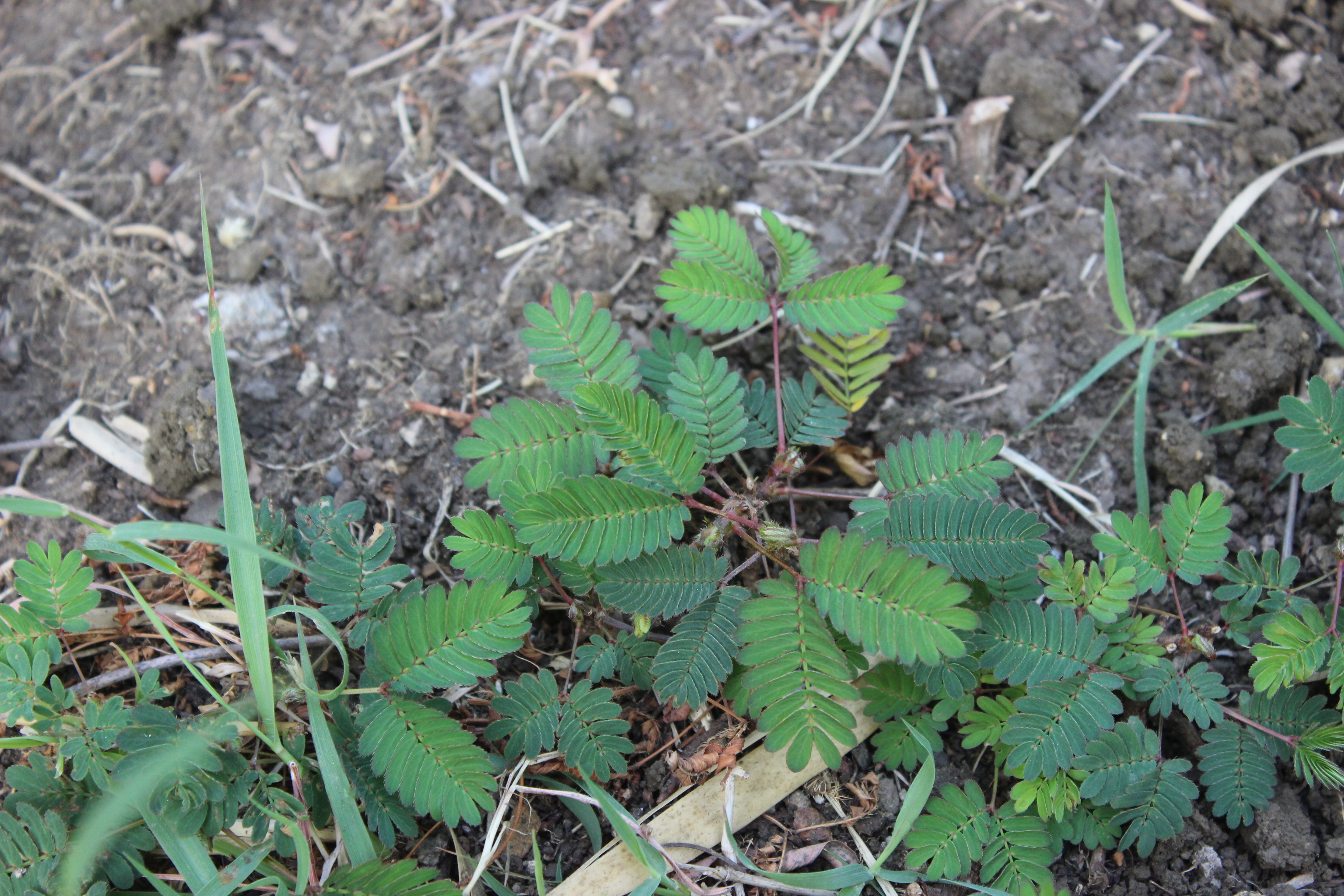 Mimosa pudica plant in Bhopal